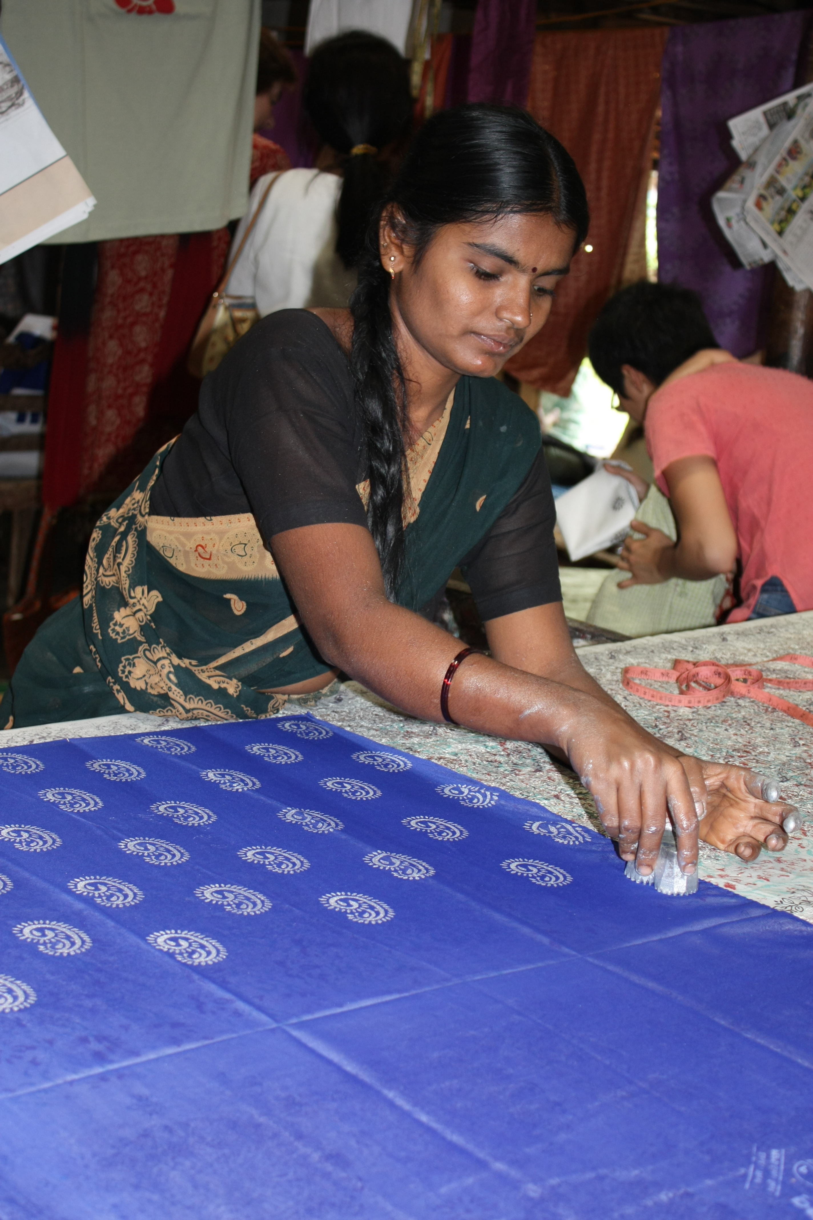 Deepa means Lamp in Kannada. In quiet Halasur village (Kanakapura Taluk), around 15 women have become skilled in the traditional technique of hand blocked printing and produce clothing, accessories and home furnishings.